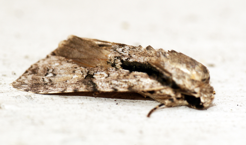 From my trip to Thailand - May 28th - 4th June 2011, most moths were found at the various temples which had metal hallide bulbs fitted to them. The ones labelled 'Hang Dong' came to my 22w Actinic light. Please feel free to help aid identification or correct my proposed identifications.